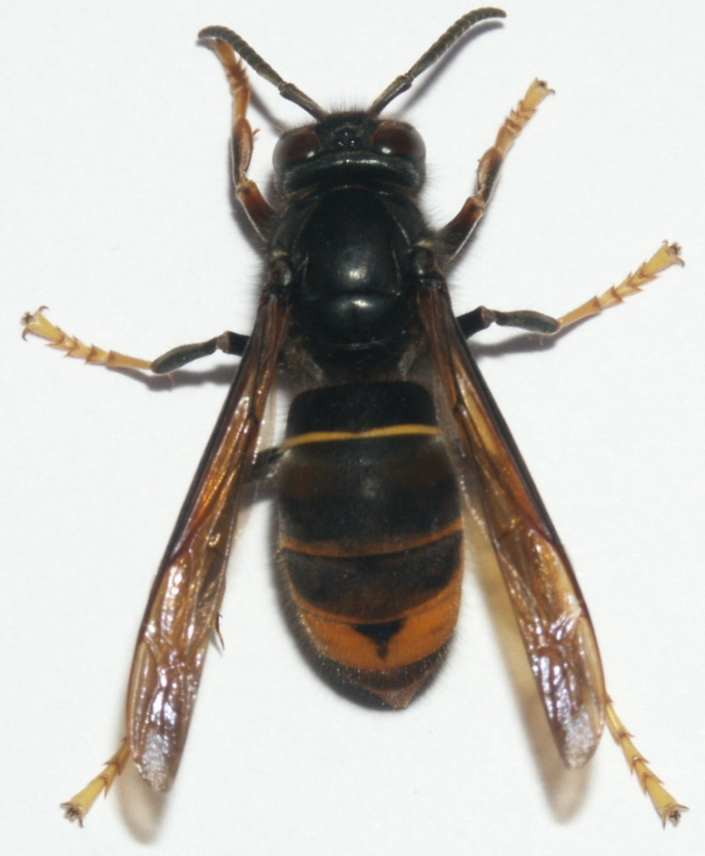 Vespa velutina caught in a garden in Floirac (Gironde, France)